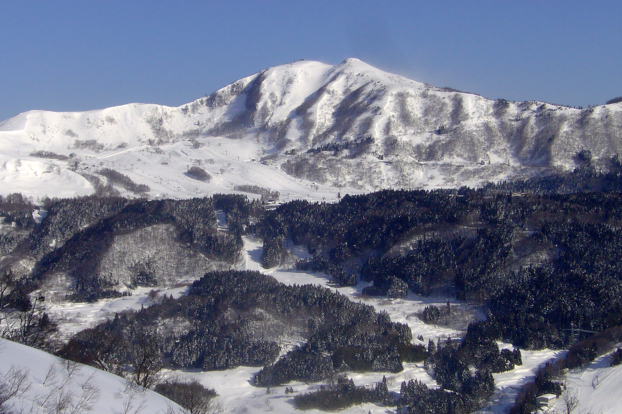 Mt.Hachibuse in Yabu, Hyogo prefecture, Japan